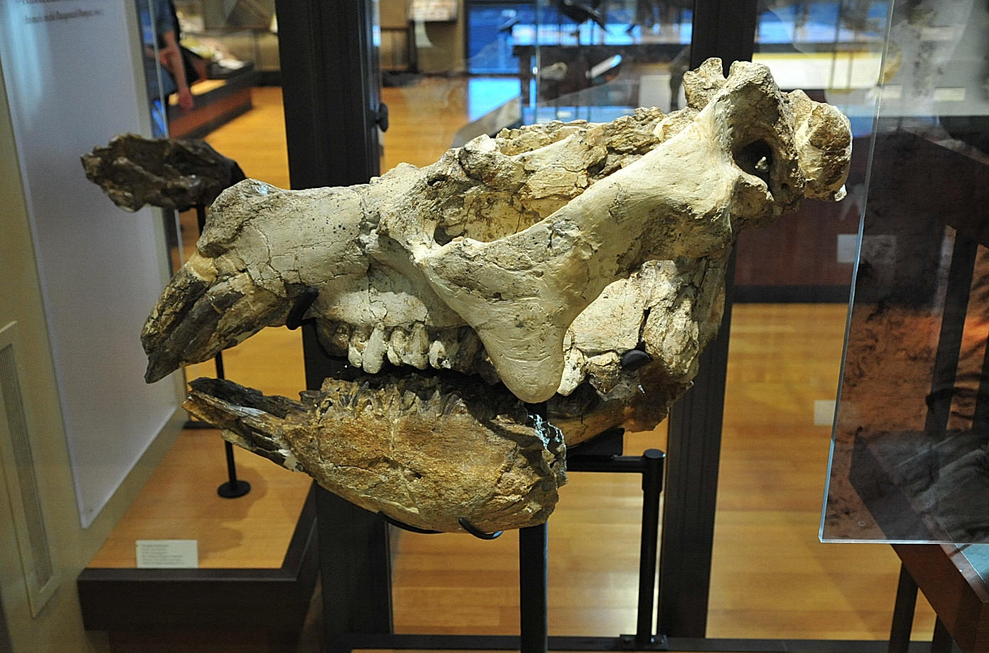 Beneski Museum of Natural History Pyrotherium sorondoi